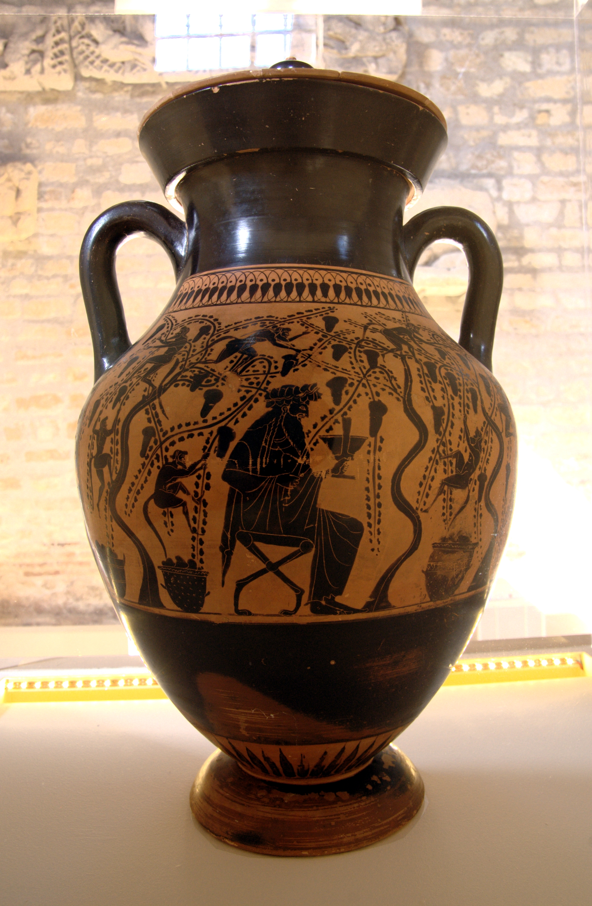 Dionysus with sileni in a vineyard. Attic black-figure amphora attributed to the Priam Painter, last quarter of 6th century BC. From Monte Abetone (Etruria). Museo Nazionale di Villa Giulia (Rome), Inv. 106463.